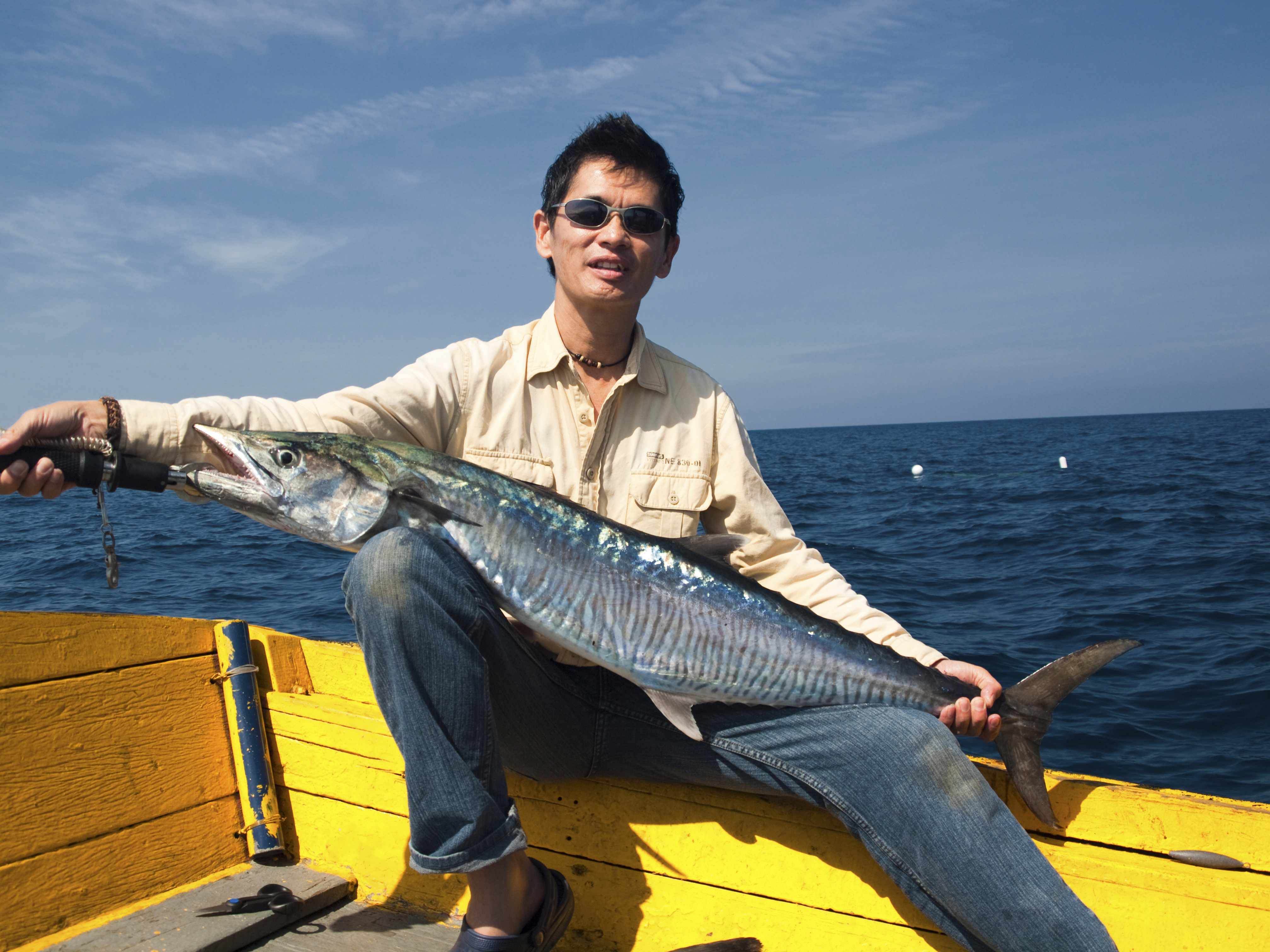 Another nice spanish mackerel caught from the waters just outside Paka, Terengganu, Malaysia.